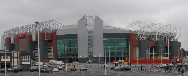 Old Trafford football stadium Old Trafford home of Manchester United.